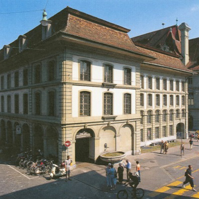 The Burgerbibliothek Bern